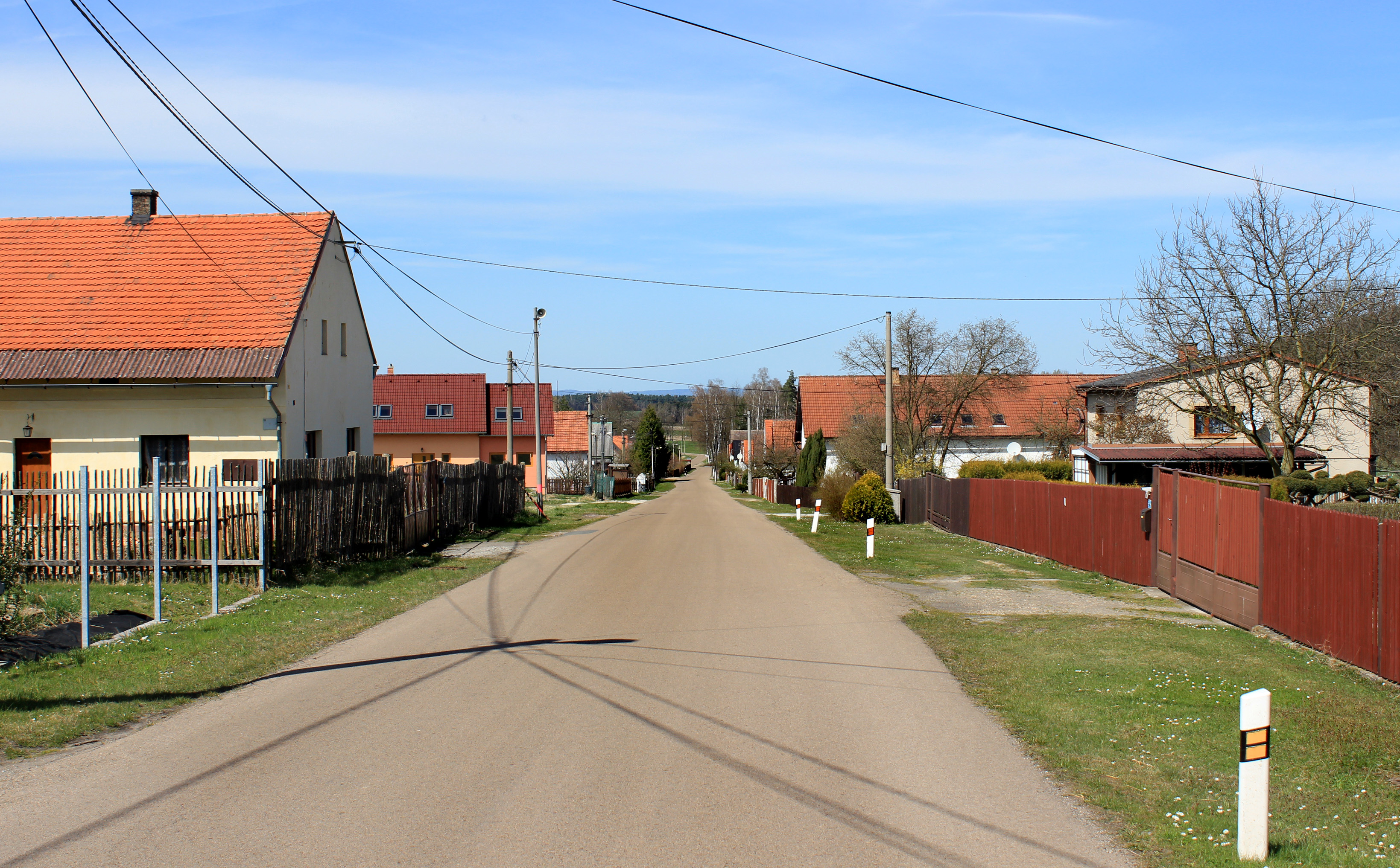 South part of Pajzov, part of Vejvanov, Czech Republic.